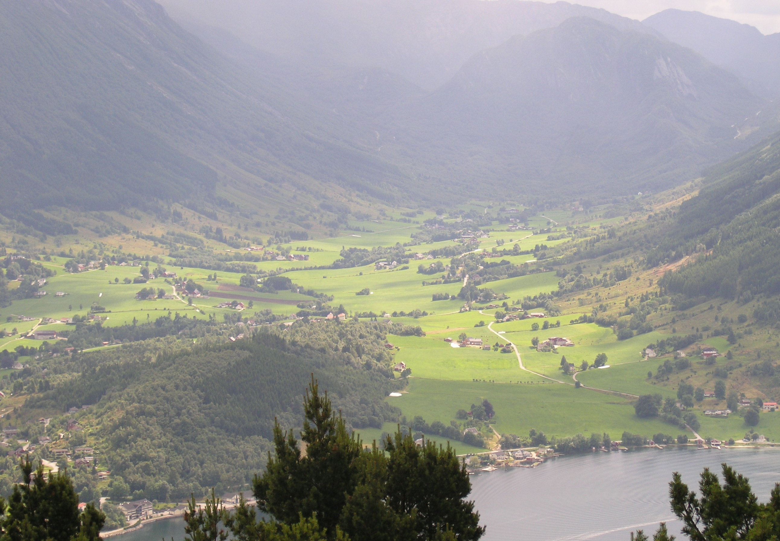 Omvikdalen from Veten on Snilstveitøy